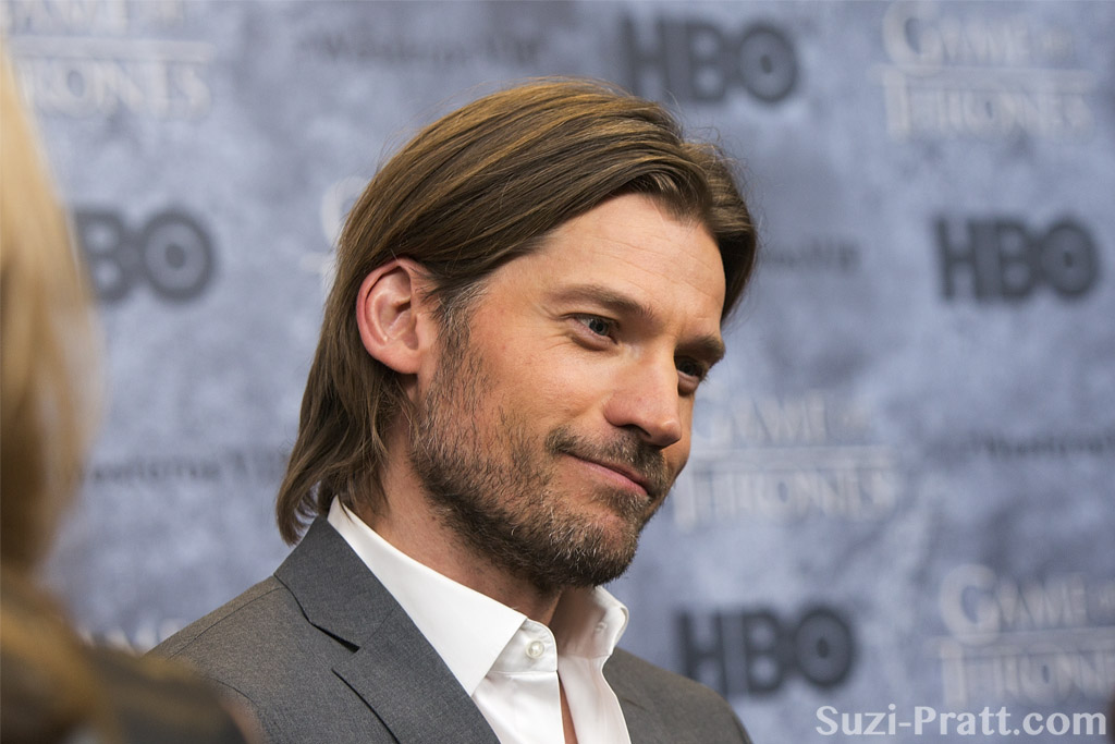 Photos by